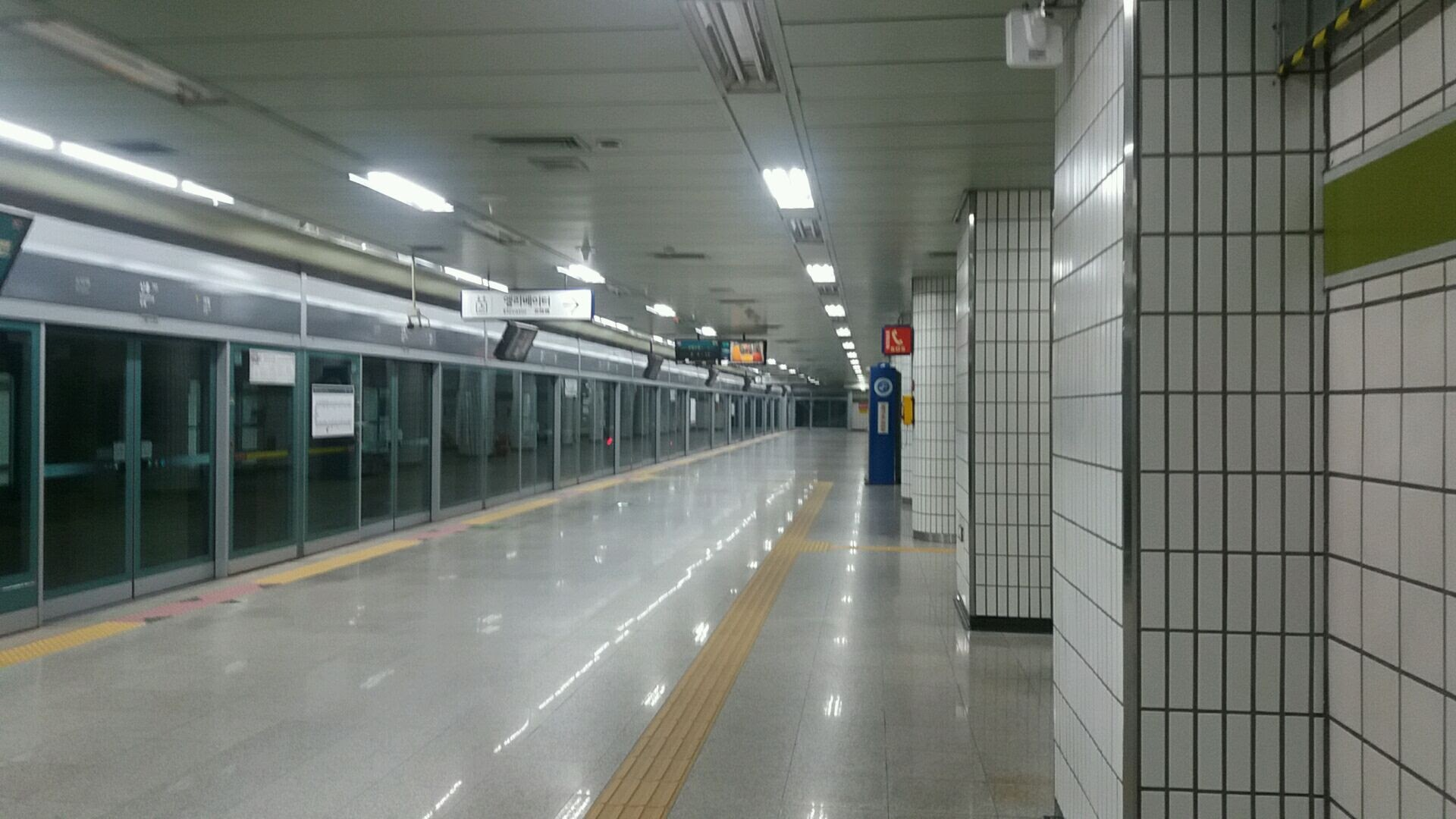 Sinpung Station (Seoul Line 7) platform